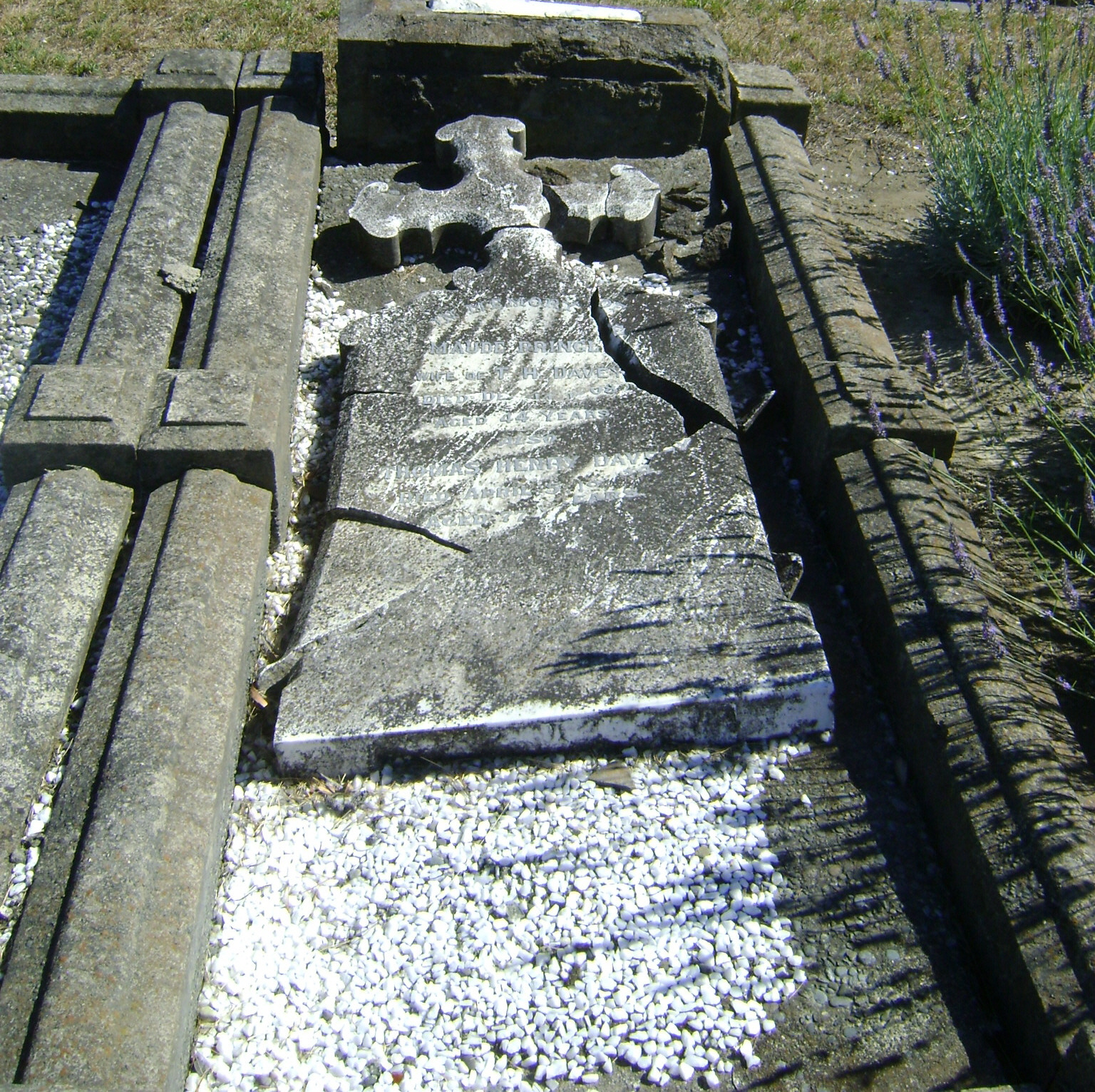 Headstone of Thomas Davey at Linwood Cemetery (broken already before the Canterbury earthquake).